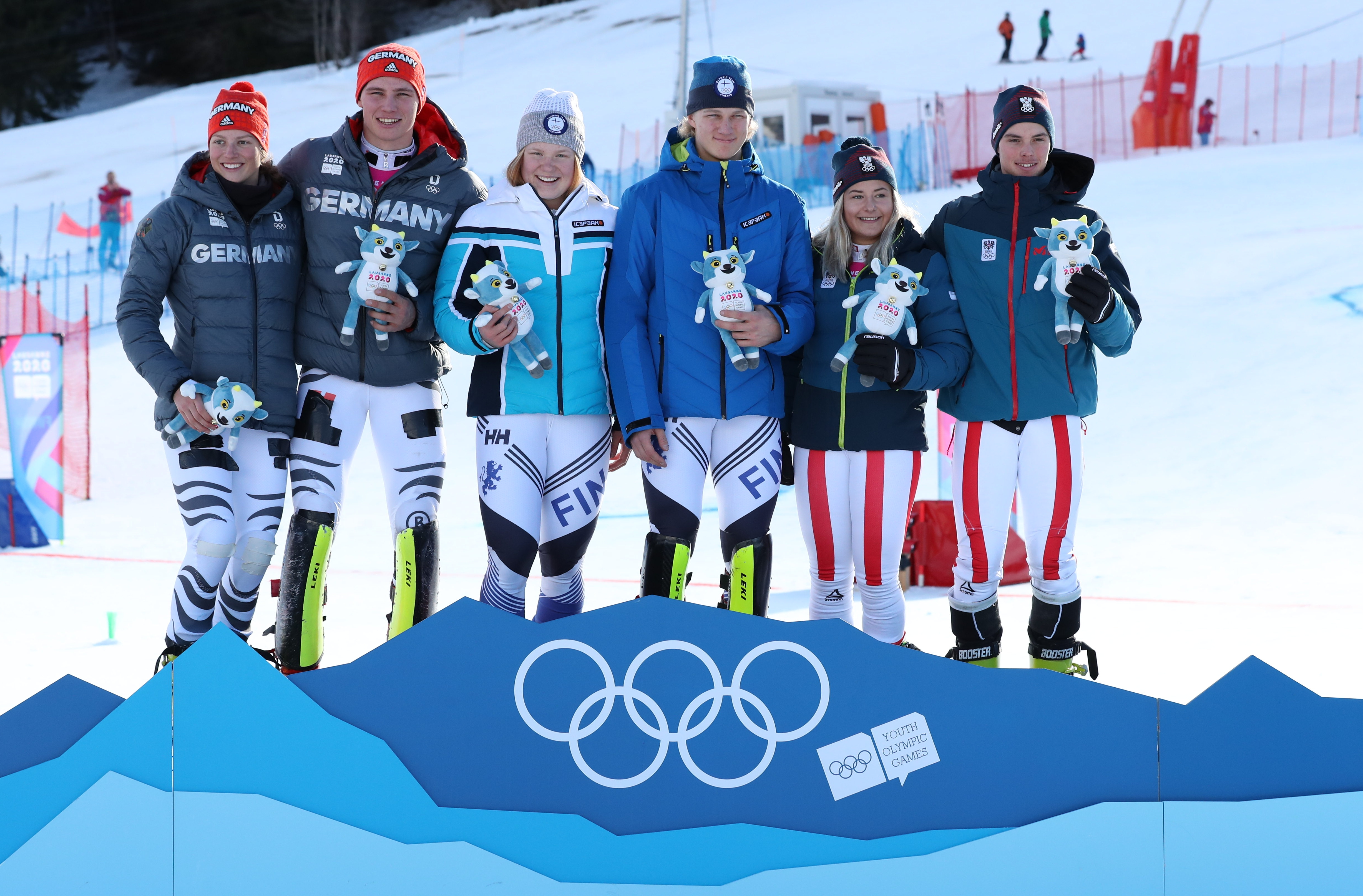 Mascot Ceremony at the Alpine Skiing Parallel Mixed Team Event at the 2020 Winter Youth Olympics in Lausanne